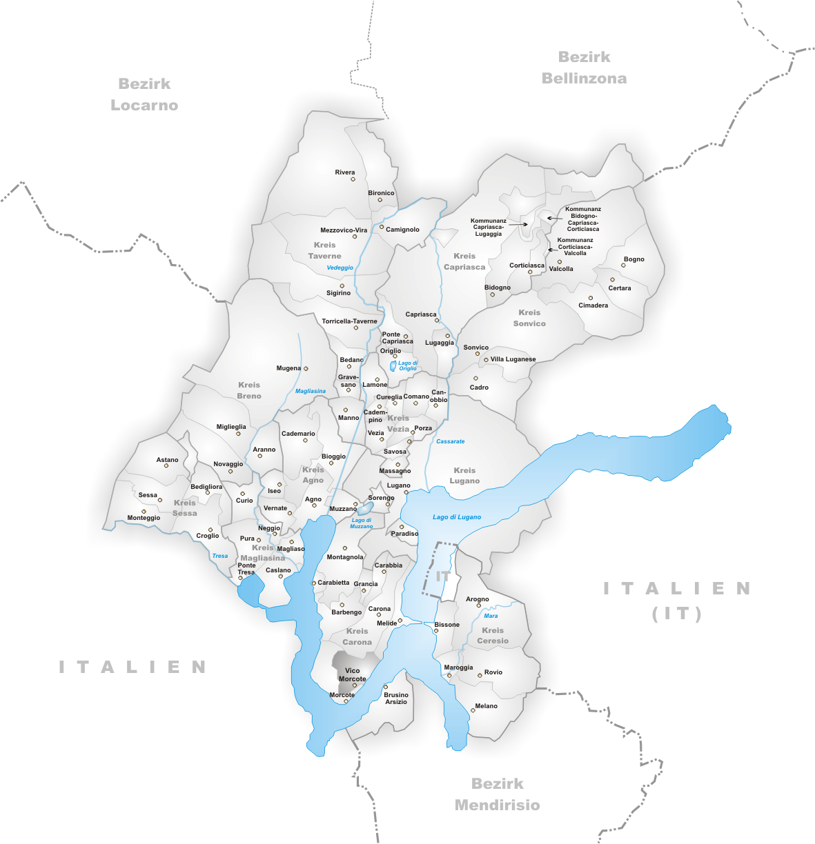 Municipality Vico Morcote